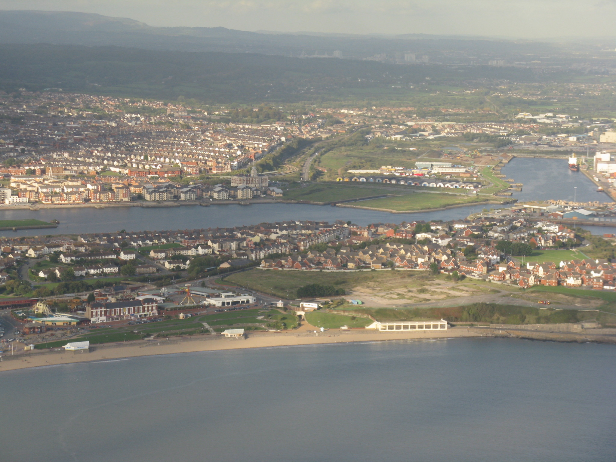 Barry Island, Barry, Vale of Glamorgan